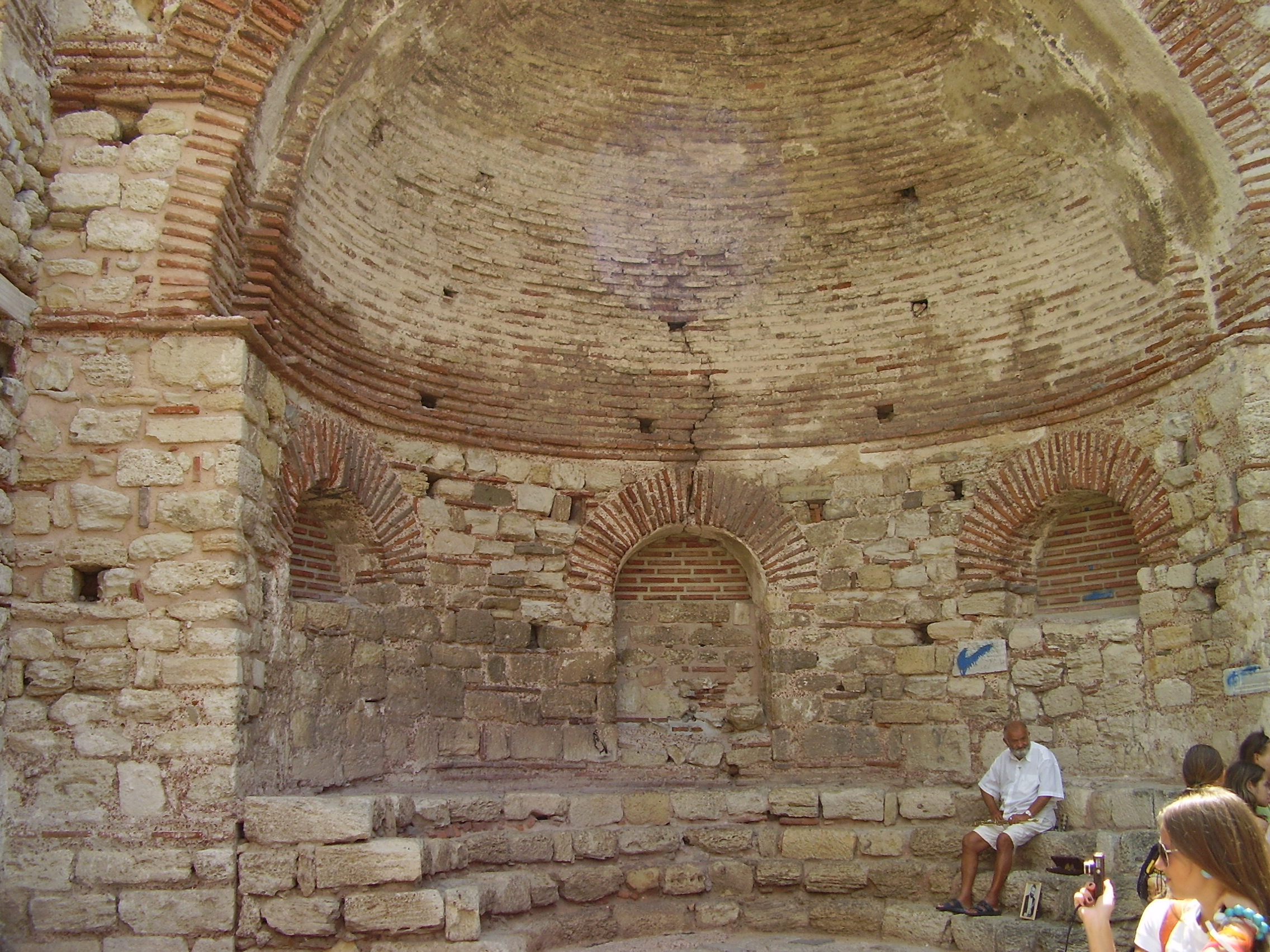 Sunny Beach, Bulgaria, july/august 2008